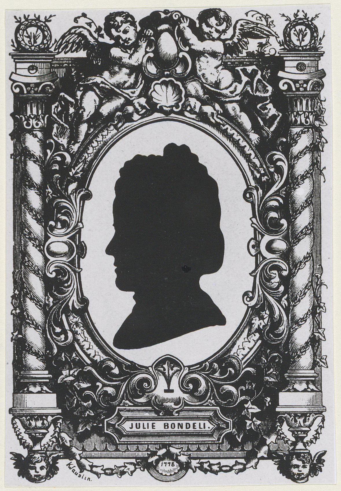 With engraved frame photograph of a silhouette